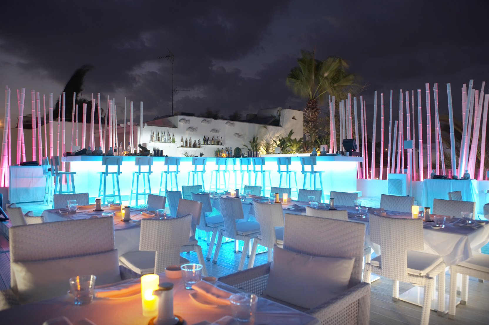 Bar in Ayia napa by night Republic of Cyprus